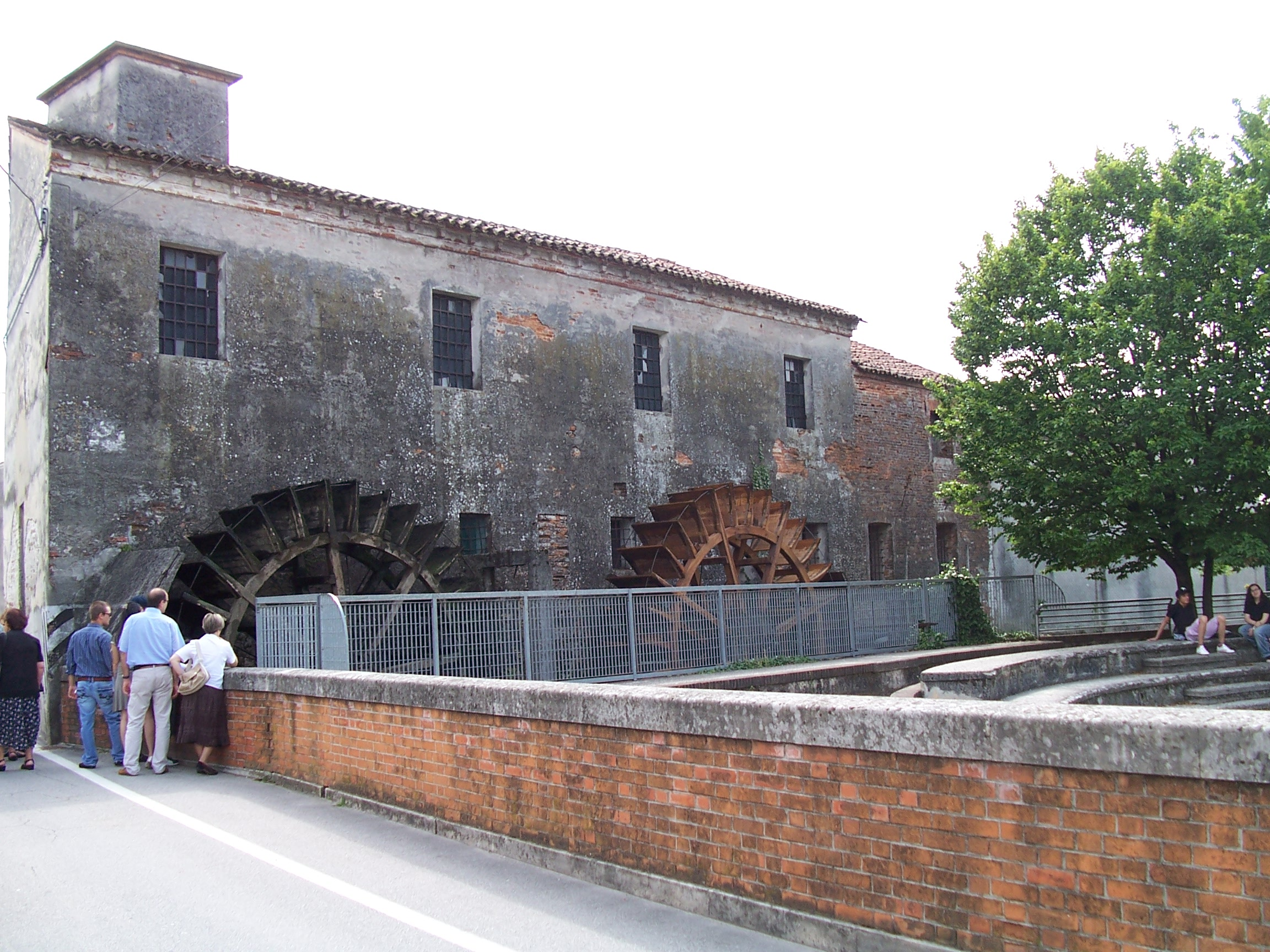 Grantorto, province of Padua: the ancient watermill.